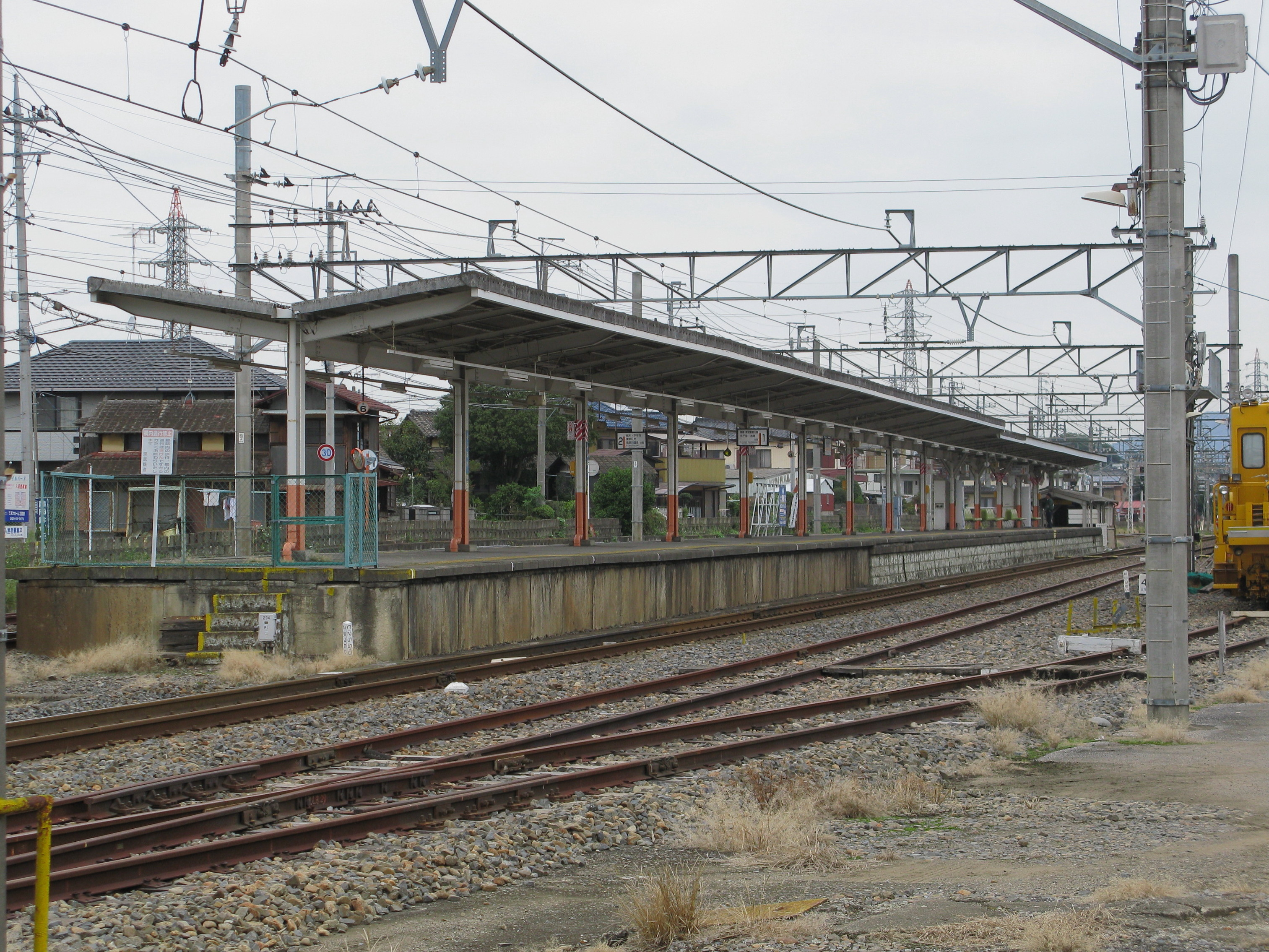 Fujioka Station of the Tōbu Nikkō Line, Tochigi, Tochigi, Japan